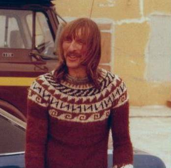 Dave Brock Hawkwind 1982 Cornwall